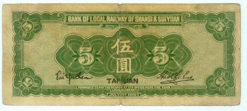 5 Yuan(Banknote), Bank of Local Railway of Shanxi and Suiyuan, back